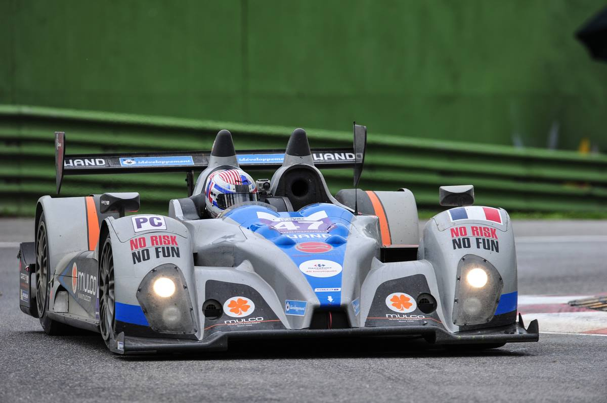 French driver Matthieu Lecuyer during the European Le Mans Series ORECA season 2013